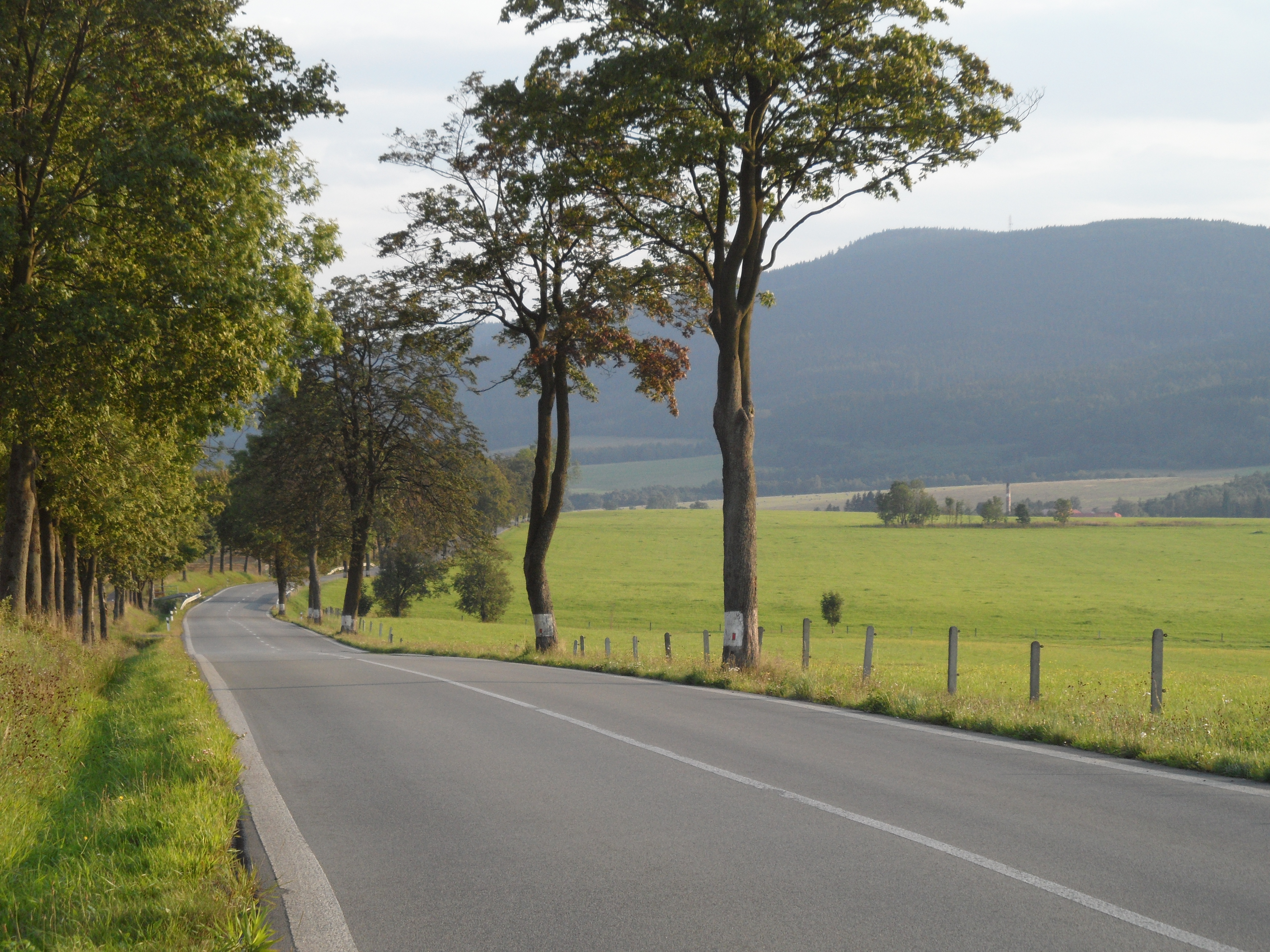 Road I/43: Between Dolní Orlice and Šanov (View in Direction to Šanov, Červená Voda). Approx. Kilometre 8 (in Direction from Border Crossing Dolní Lipka), Ústí nad Orlicí District, the Czech Republic.